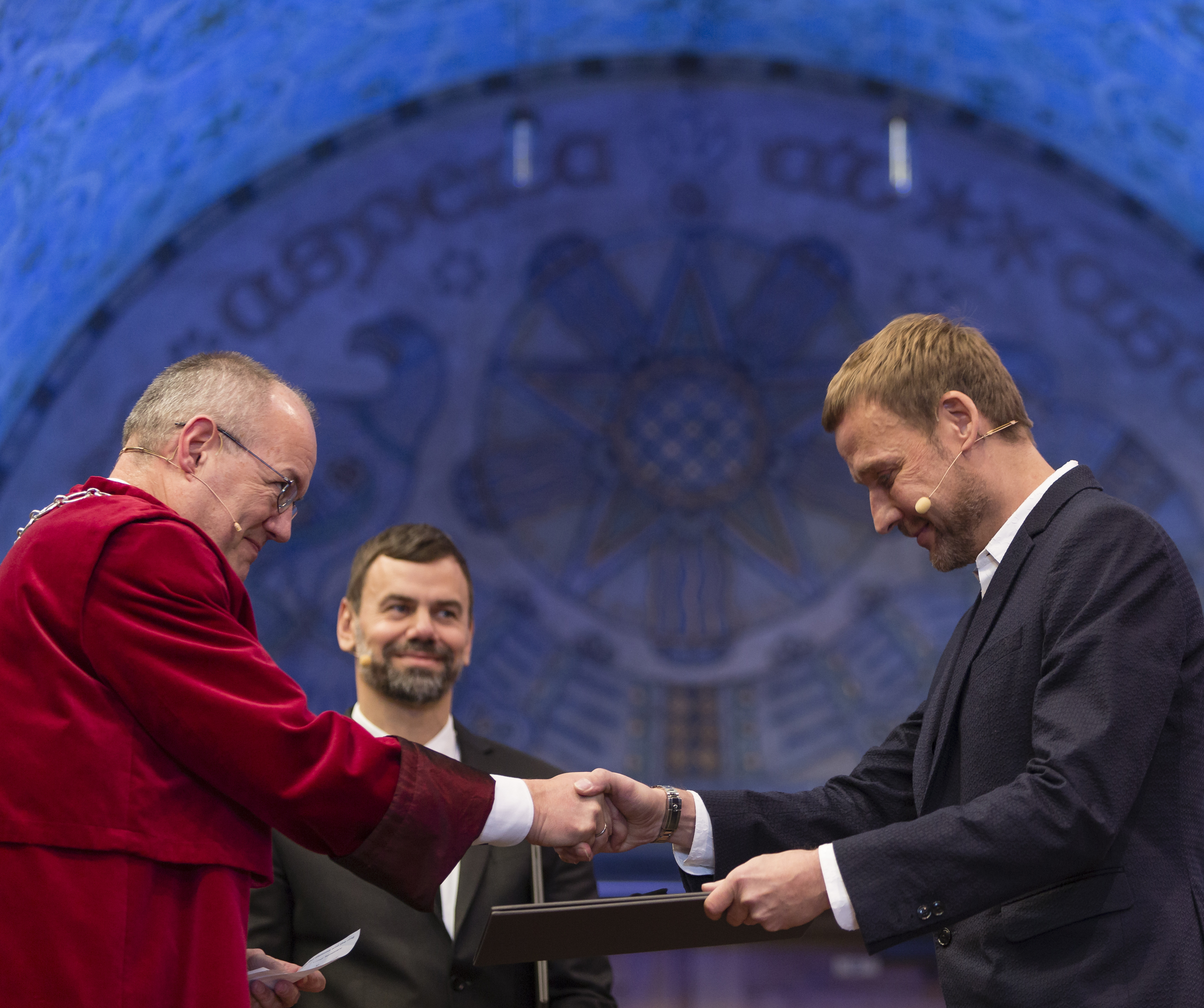 The artists Elmgreen & Dragset (Michael Elmgreen & Ingar Dragset) receiving their honorary doctorate diplomas at the Norwegian University of Science and Technology, Trondheim, November 13th, 2015. Left to right: Rector Gunnar Bovim, Ingar Dragset, Michael Elmgreen